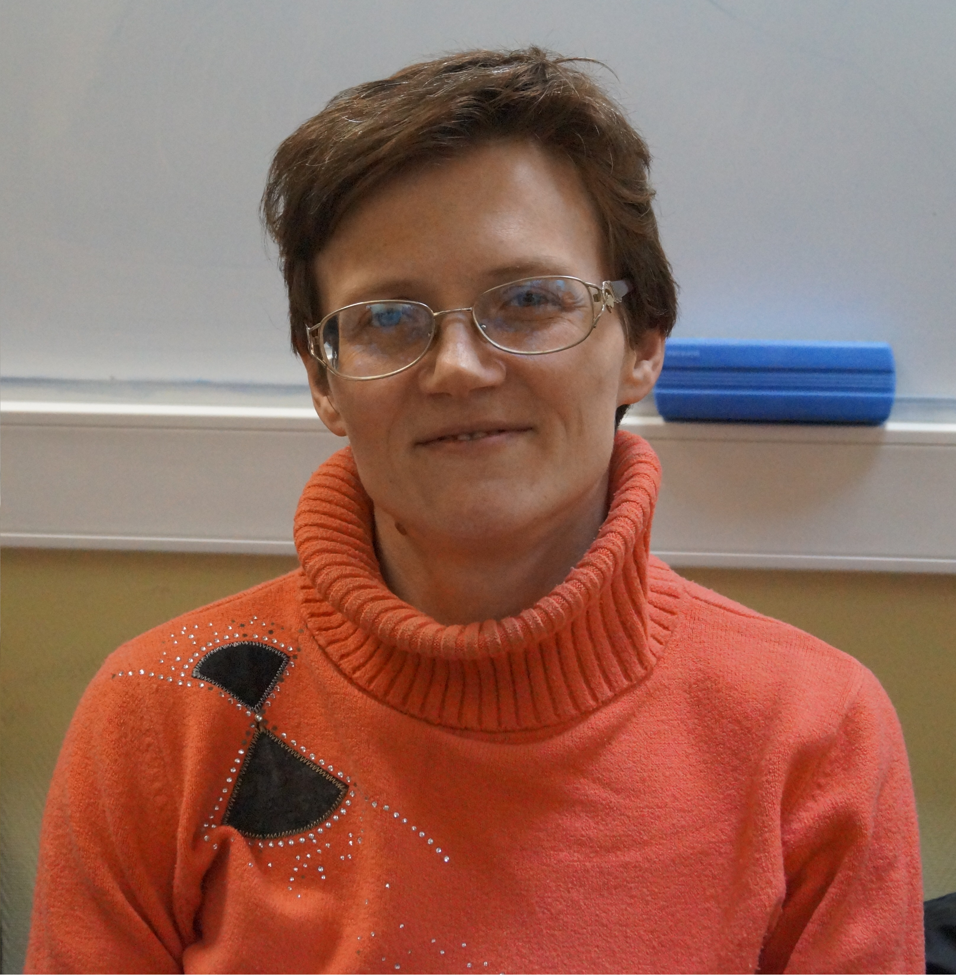 Svetlana Davydova, a Russian activist, mother of 7, suspected of treason in 2015.